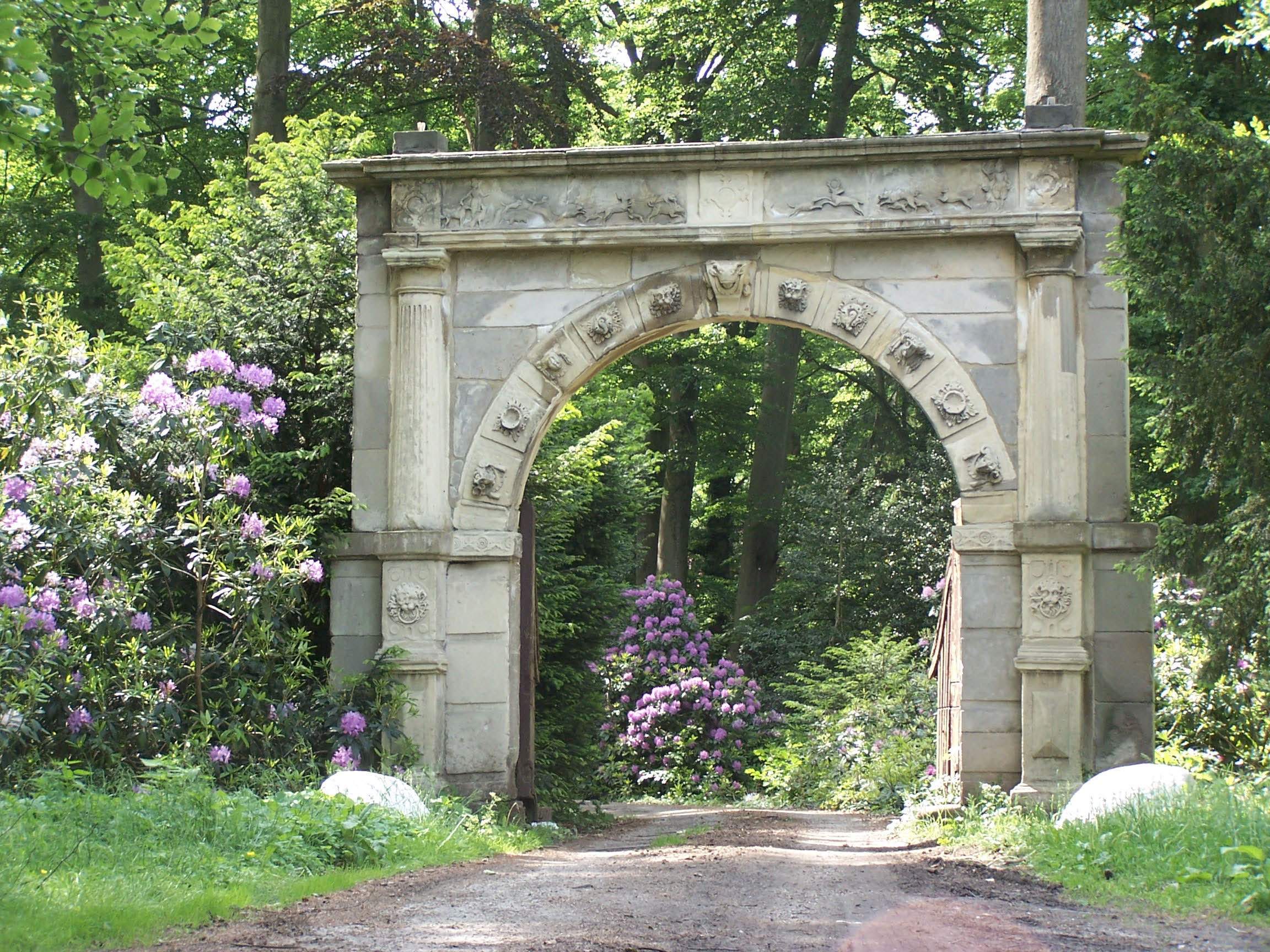 Gate of the Estate "Het Stroot" in Twekkelo, Netherlands. An object in the Dutch National Trust